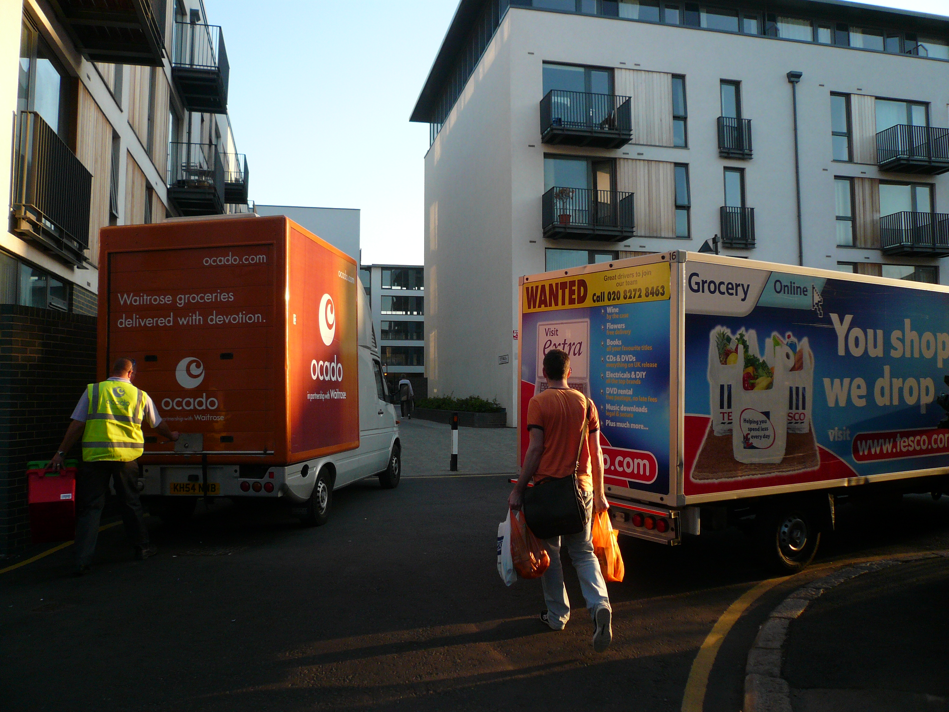 Grocery delivery vans on Morocco Street, London SE1. With Vesta Court, City Walk in the background on the right.